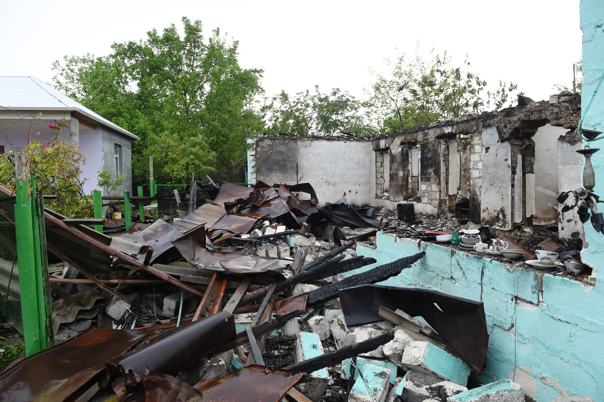 Ilham Aliyev met with residents of Makhrizli village, Agdam, on the line of contact